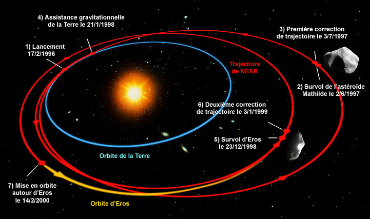 NEAR Shoemaker spacecraft trajectory (french labels)